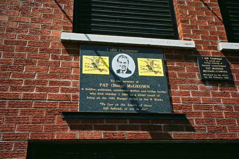 Memorial plaque to hunger striker Pat McGeown re. the Troubles. Belfast, May 2006.